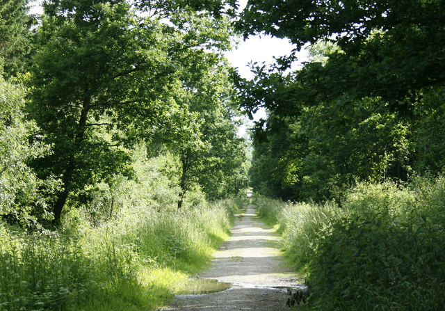 Clanger Wood Clanger Wood and nearby Picket Wood are in the care of the Woodland Trust There is a small car park accessible from the A350 Trowbridge to Westbury road. Care must be taken when entering and leaving, the car park entrance is not signposted and is not obvious. This can be a very busy road.